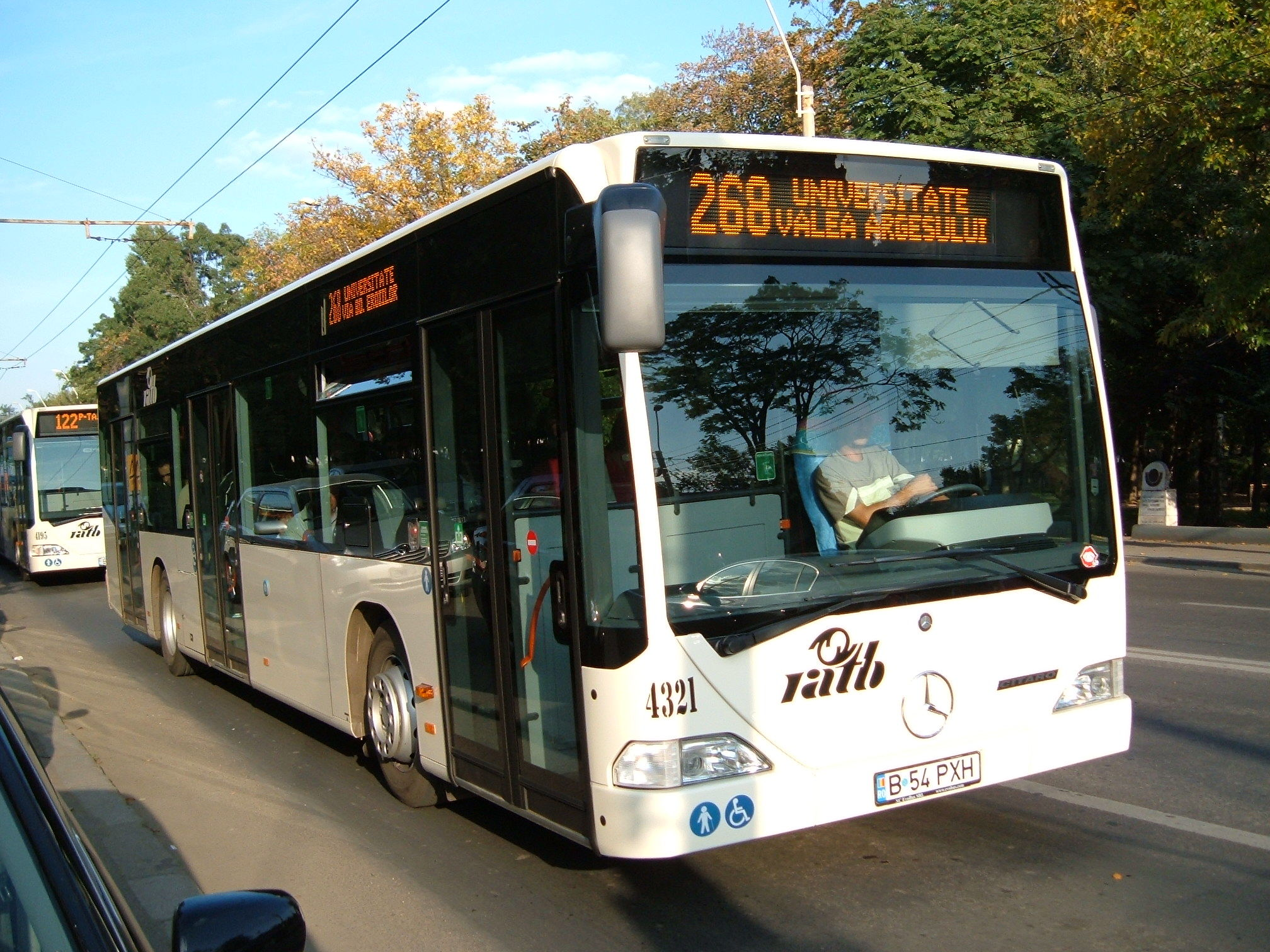 City bus in Bucharest, Romania (Mercedes Citaro type)